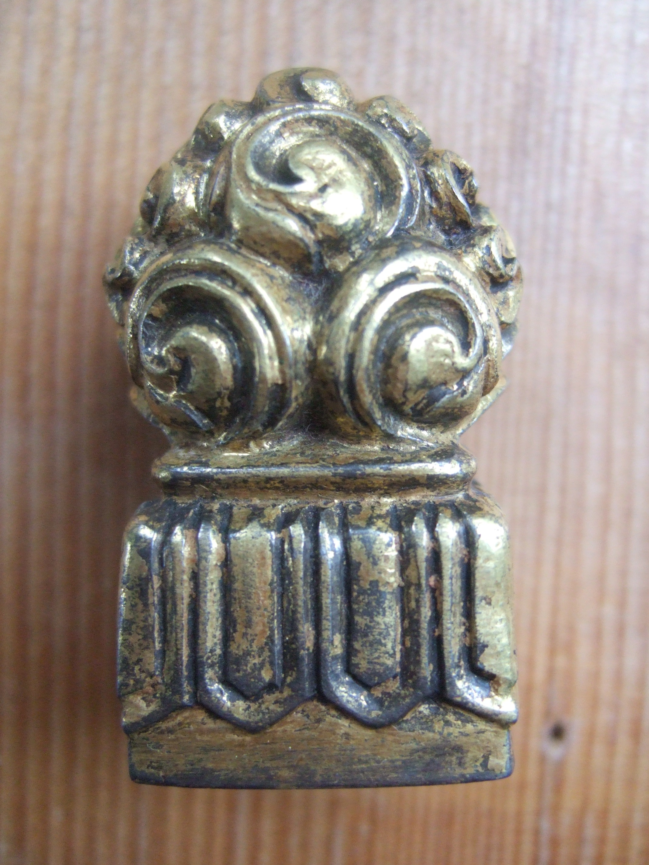 Tibetan gilded iron seal, no. 10